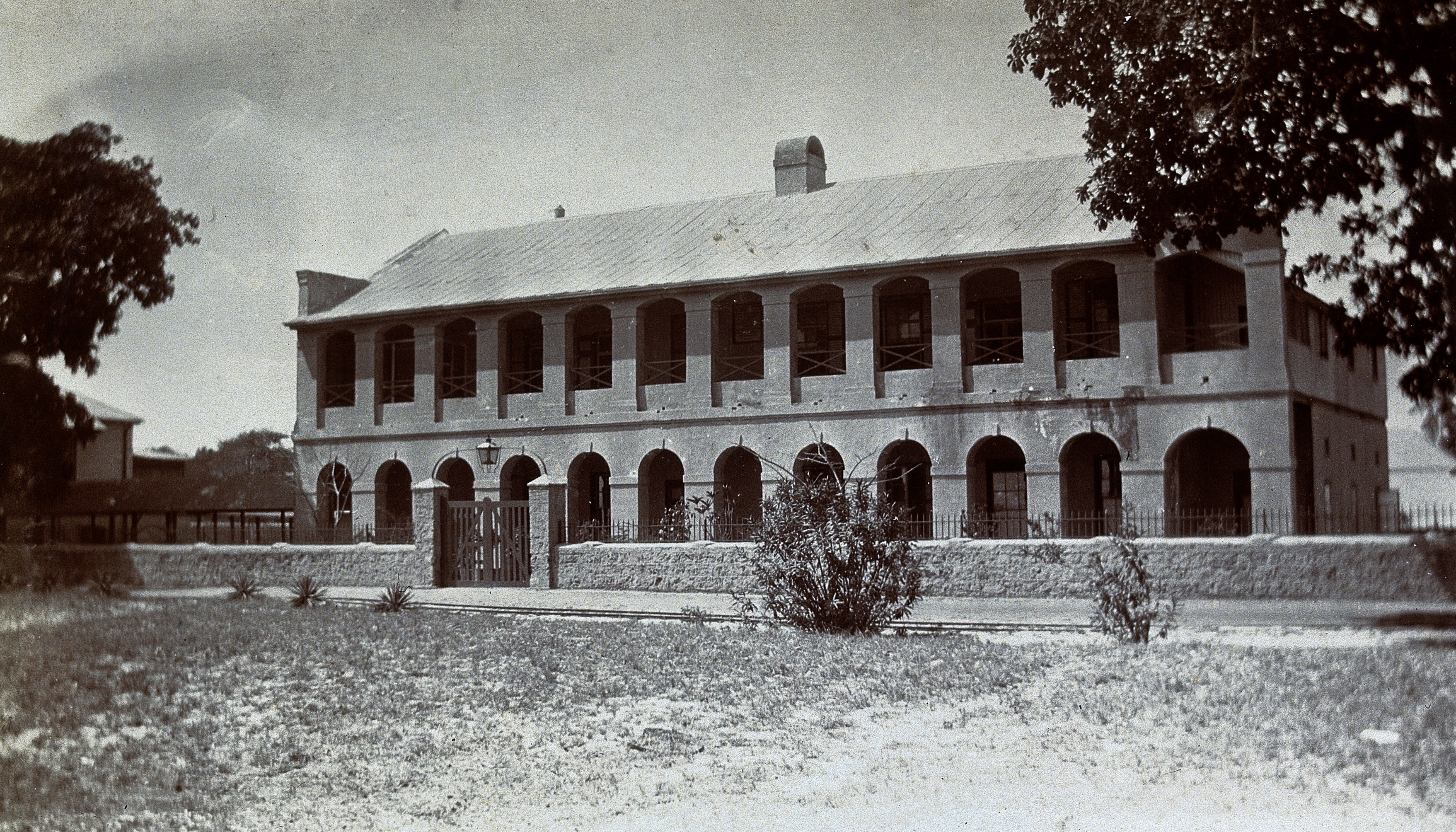 Hospital in Bathurst, Gambia. Photograph, c. 1911. Iconographic Collections